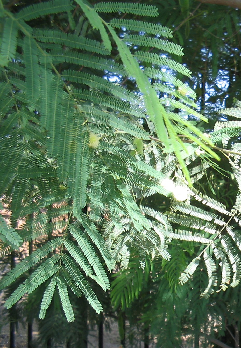 Acacia berlandieri Foliage and Flowers